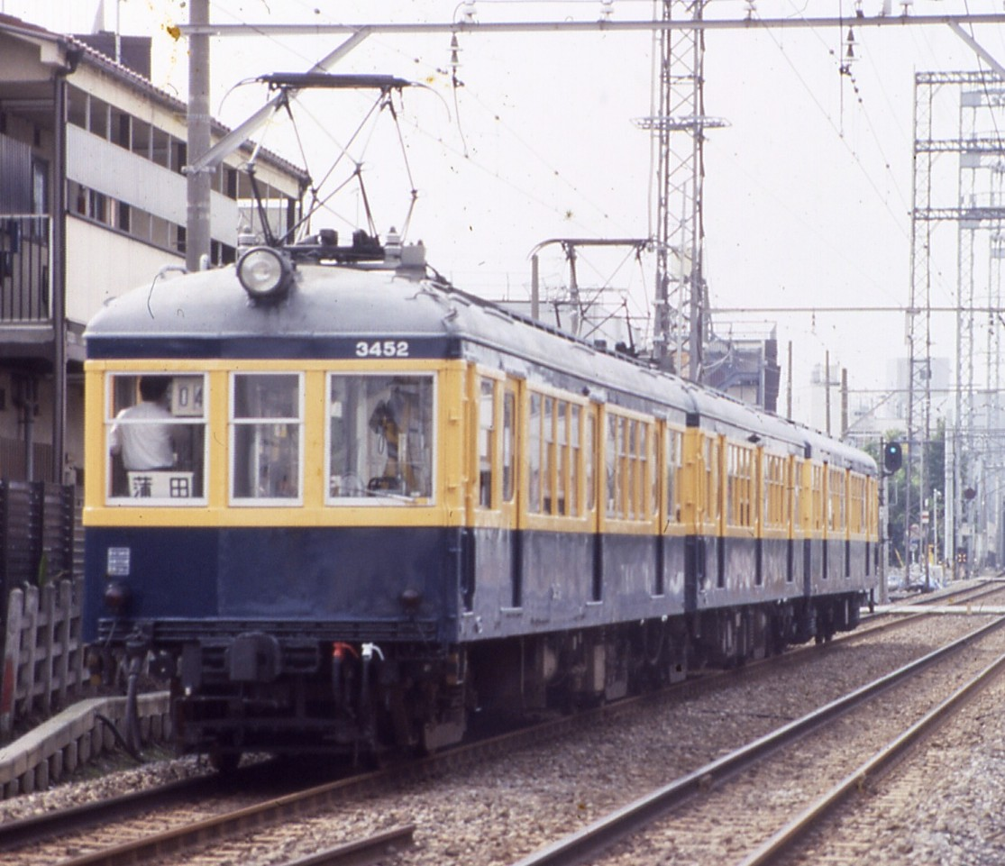 Tokyu 3452 running near Ishikawadai Station